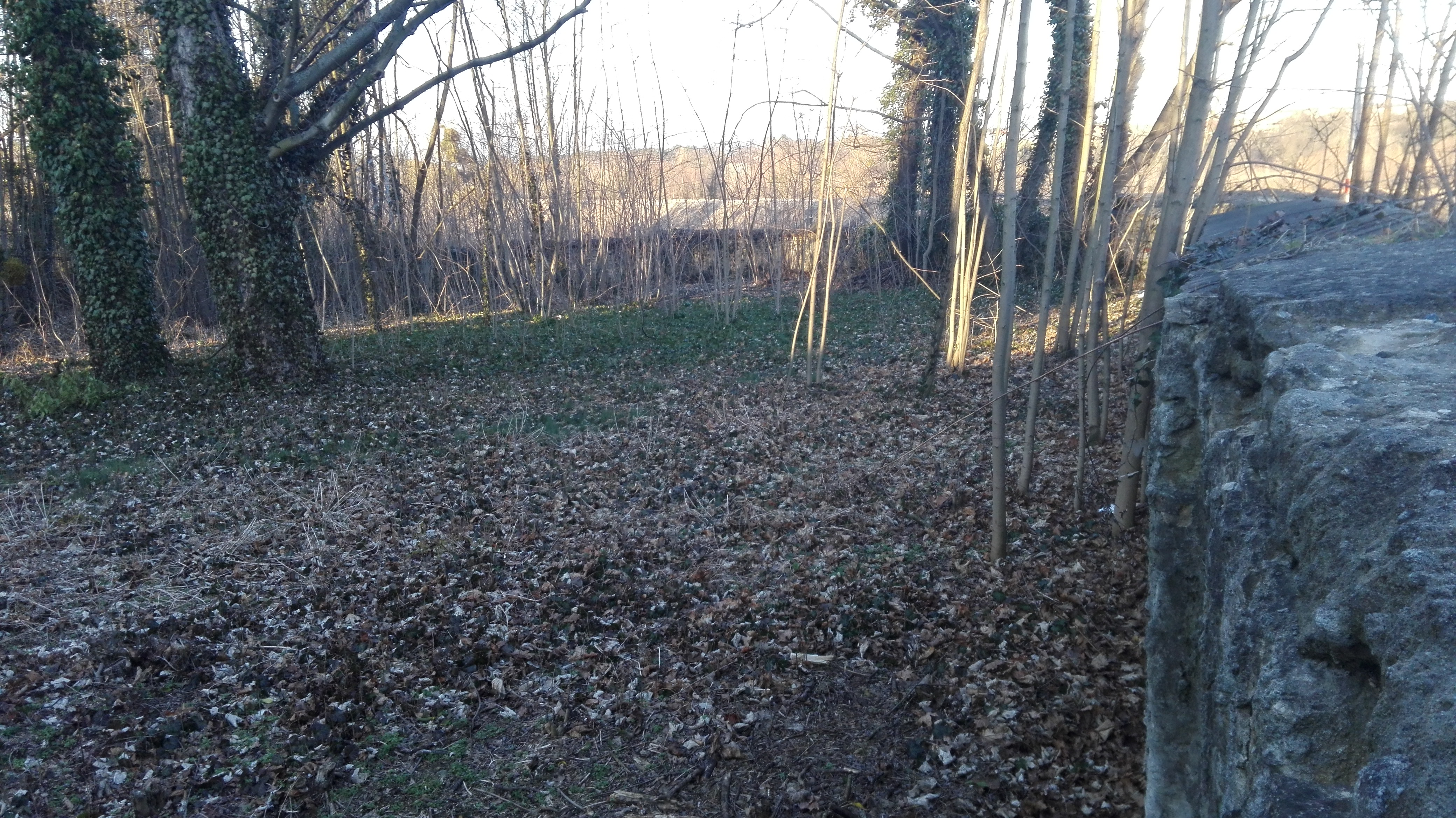 Jewish cemetery in Krapkowice, Poland. 12.1989.